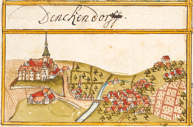 View of Denkendorf from the forest register books created by Andreas Kieser